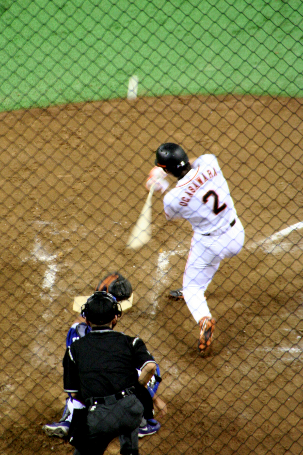 Michihiro Ogasawara, infielder of the Yomiuri Giants, at Tokyo Dome.